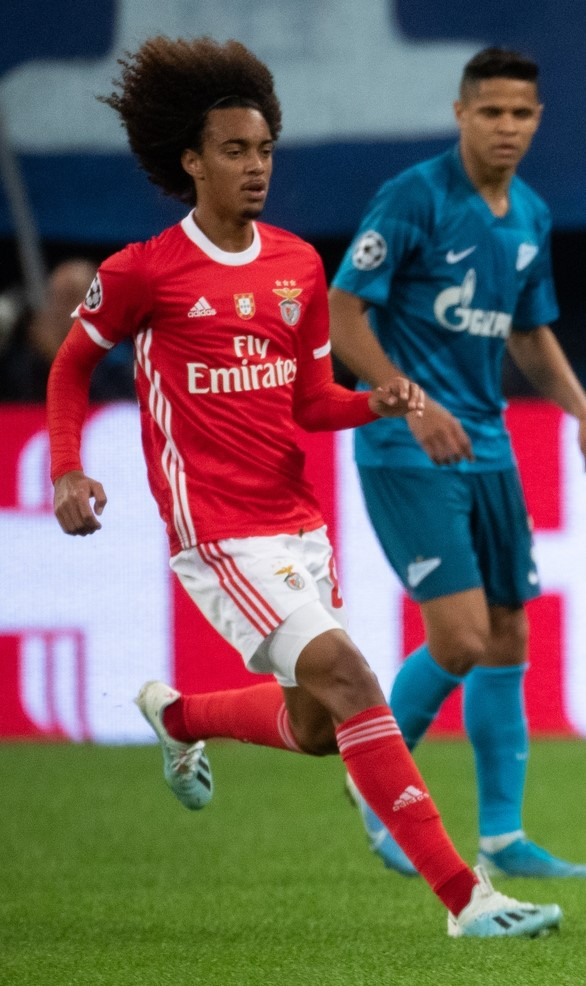 02.10.2019. Россия, Санкт-Петербург, «Газпром Арена». Лига Чемпионов УЕФА 2019/20, «Зенит» — «Бенфика».